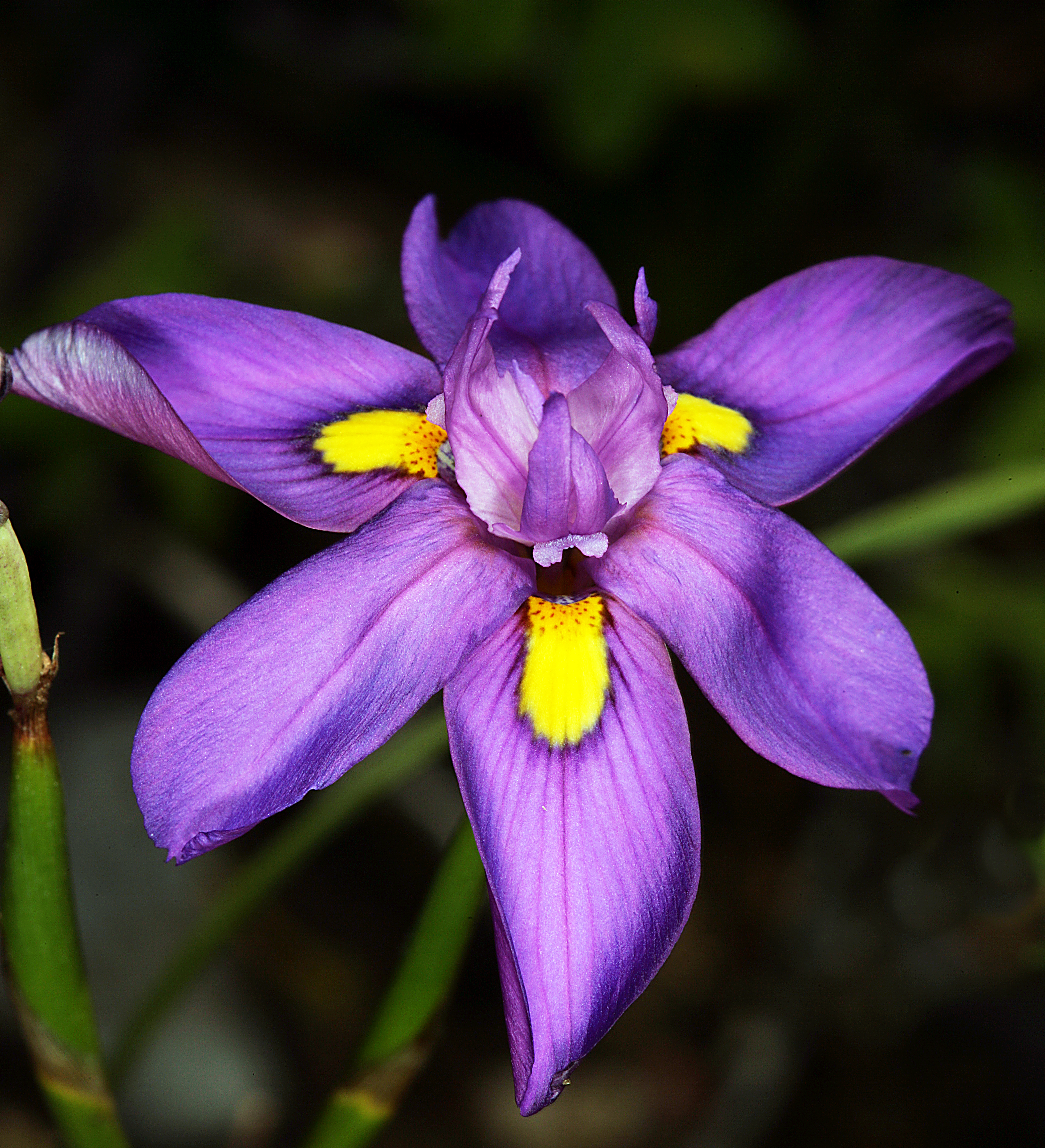 Moraea bipartita, flower; Oudtshoorn, Grootkom Natural Heritage Site, Western Cape, South Africa